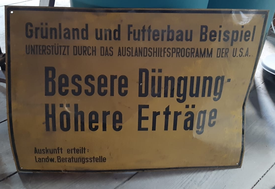 Grassland and forage production example supported by the overseas aid program of the U.S.A. Better fertilization – higher yields. Information provided by Agricultural counseling center.